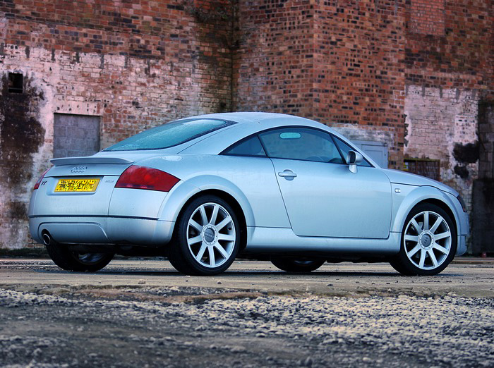 Audi TT